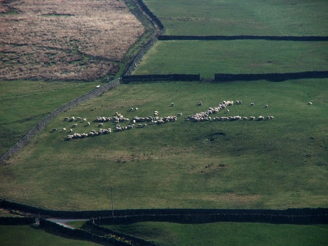 X Marks The Spot. These sheep at Grain above Crimsworth Dean had arranged themselves as such in order to draw my attention to them.